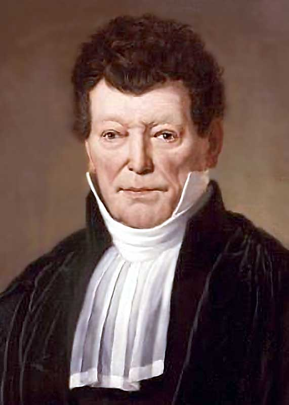 Hermann Arntzenius (1765-1841) Dutch jurist